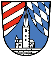 Coat of Arms of Ottensoos